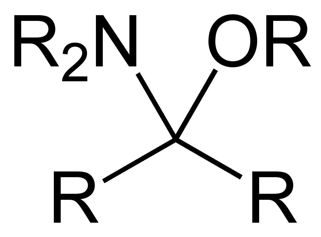 Skeletal structure for generic hemiaminal ether functional group derived from a ketone